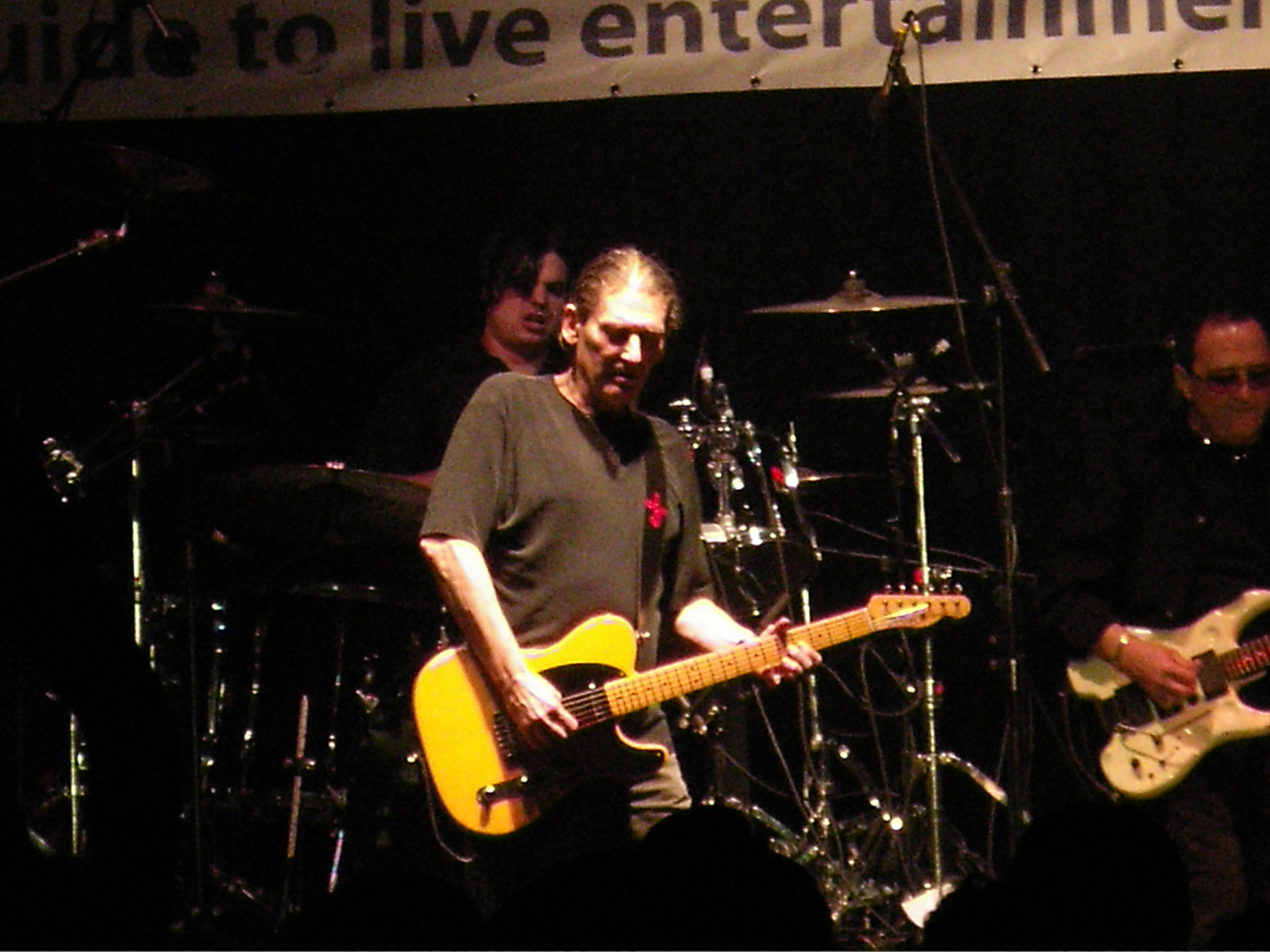 Allen Lanier of the American hard rock band Blue Öyster Cult, playing live in 2006